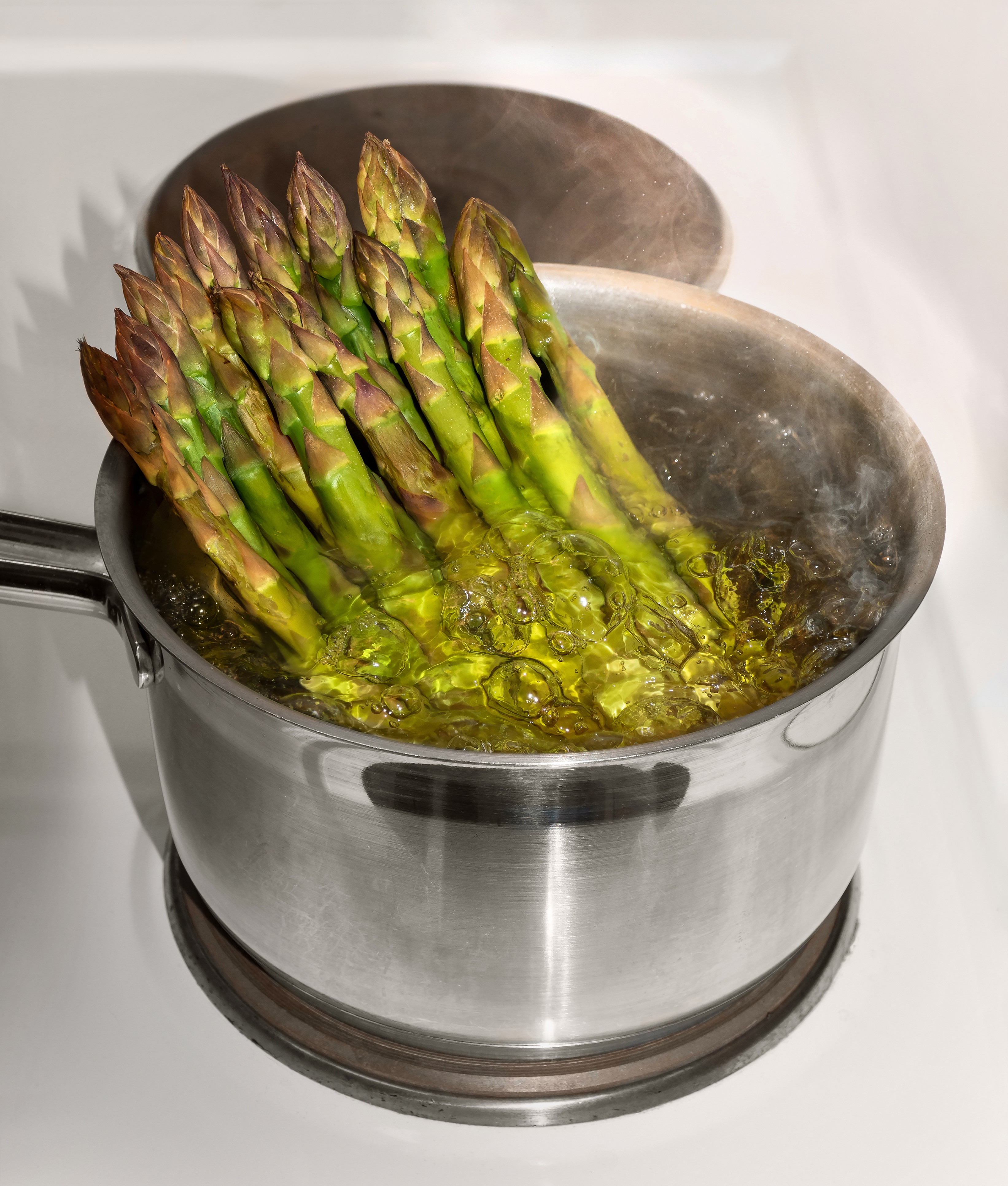 Steam-boiling green asparagus (Asparagus officinalis) in a stainless steel pot in Lysekil, Sweden. By not submerging the whole asparagus, the tender tops of the shoots will only be steamed and retain their crispiness. The image is focus stacked from five photos.